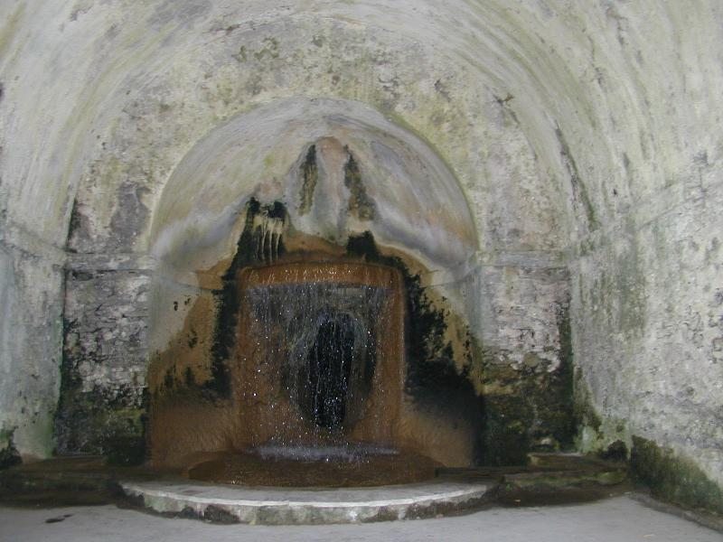 Tivoli, Villa d'Este: second cave grotto between Organ Fountain and Fountain of Neptune (one of the so-called "caves of the Sibyls") by Lalupa